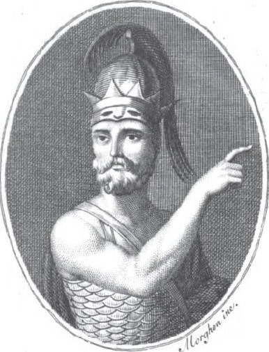 Ducetius, king of the Sicels